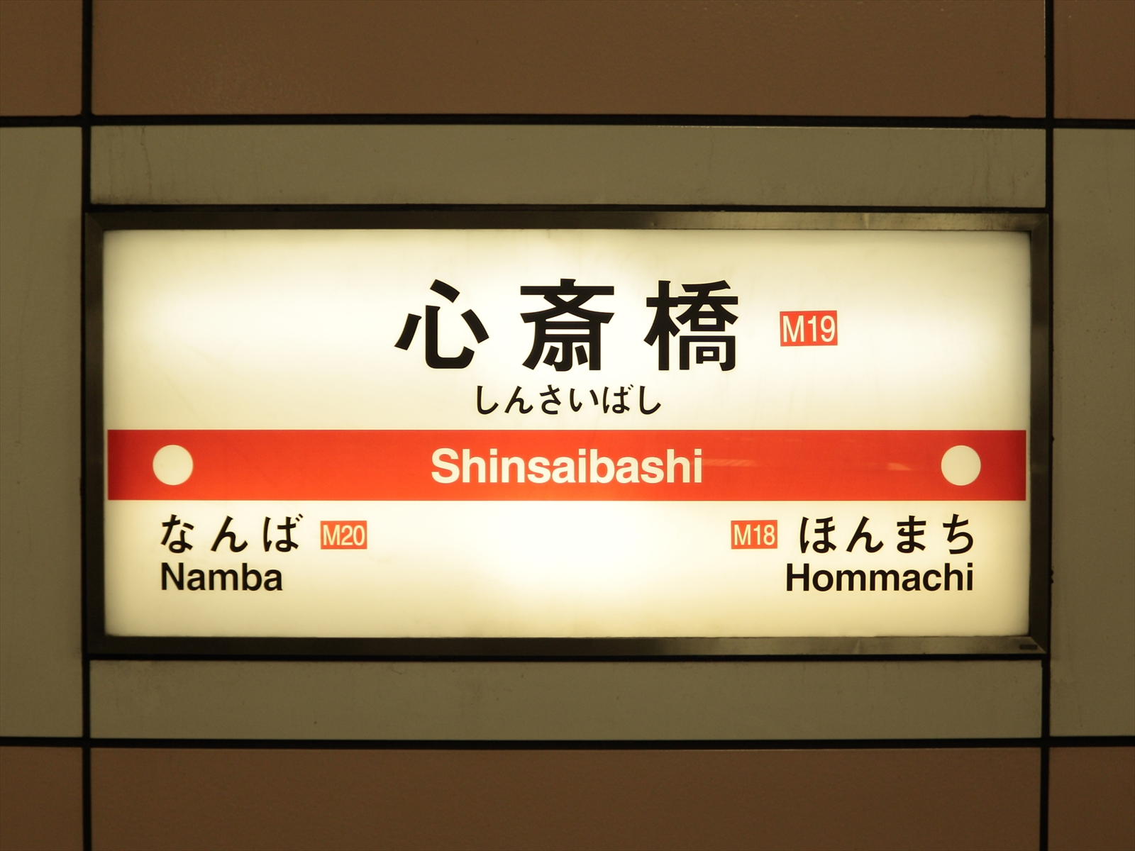 Running in board from Shinsaibashi Station (Midosuji Line).